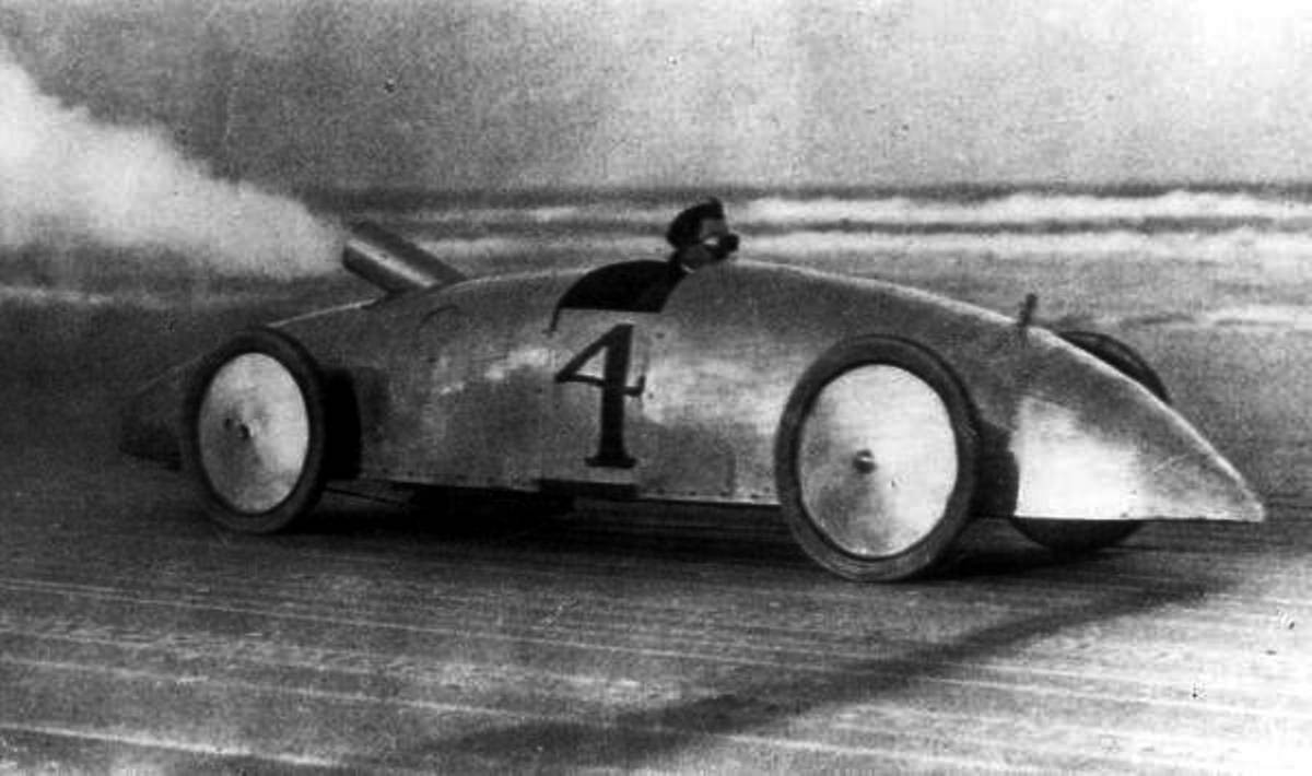 Louis Ross racing in the twin-engined Stanley Woggle-Bug steam automobile : Daytona Beach, Florida